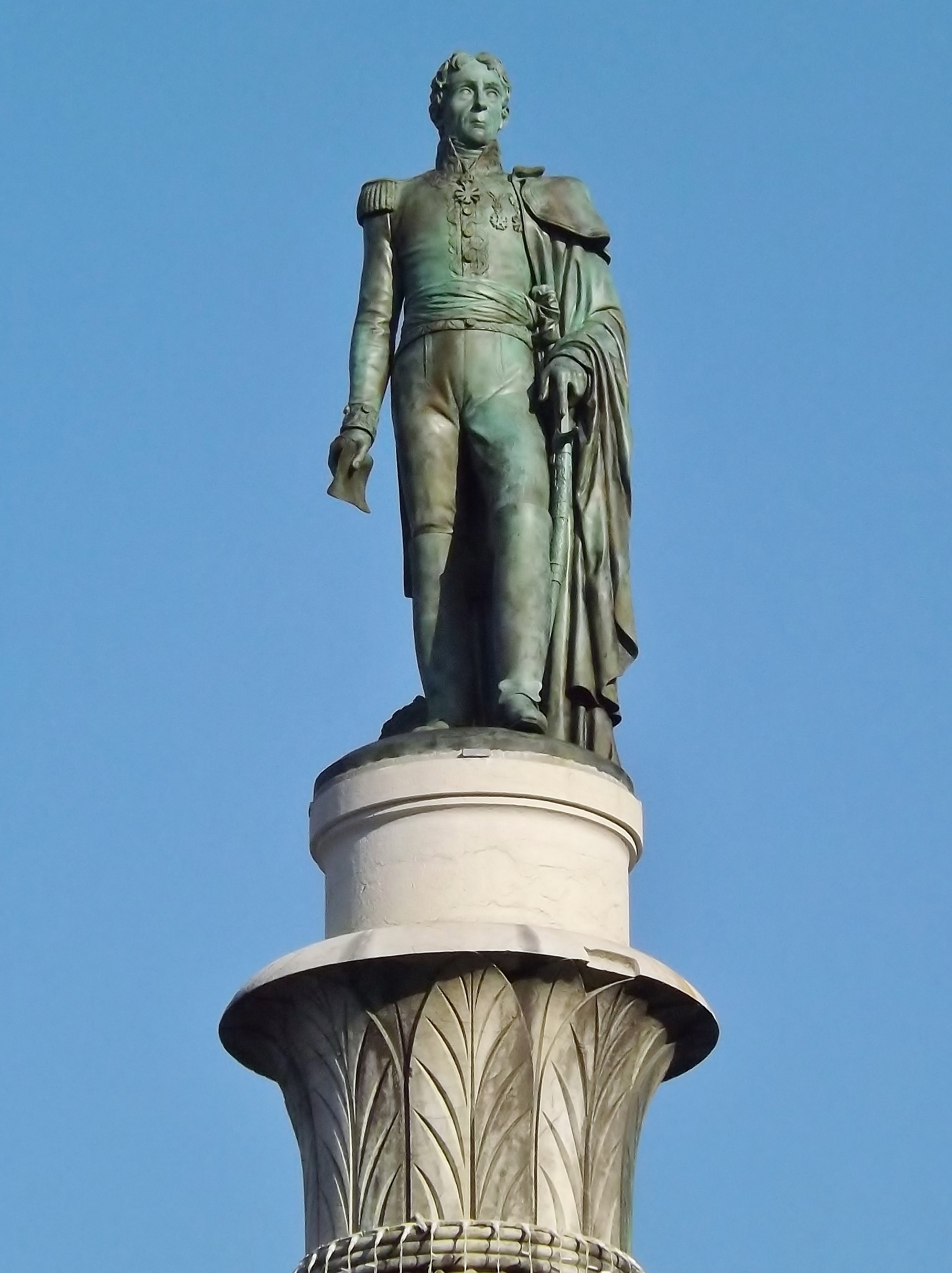 Sight of the Benoît de Boigne statue, at the top of the fontaine des Éléphants fountain, after its restoration, in Chambéry, Savoie, France.